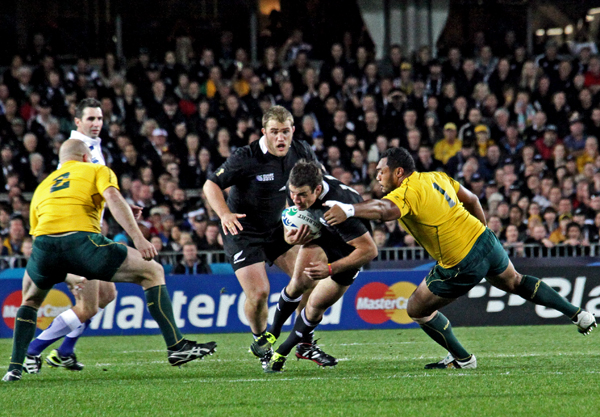 blacks australia 007 IMG_2488 internet